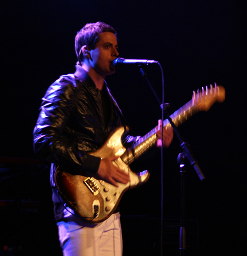 Martinique Josefsson, Swedish singer, Sandy Mouche. Plays as support act @ Per Gessle's live in Cologne, 27 April, 2009